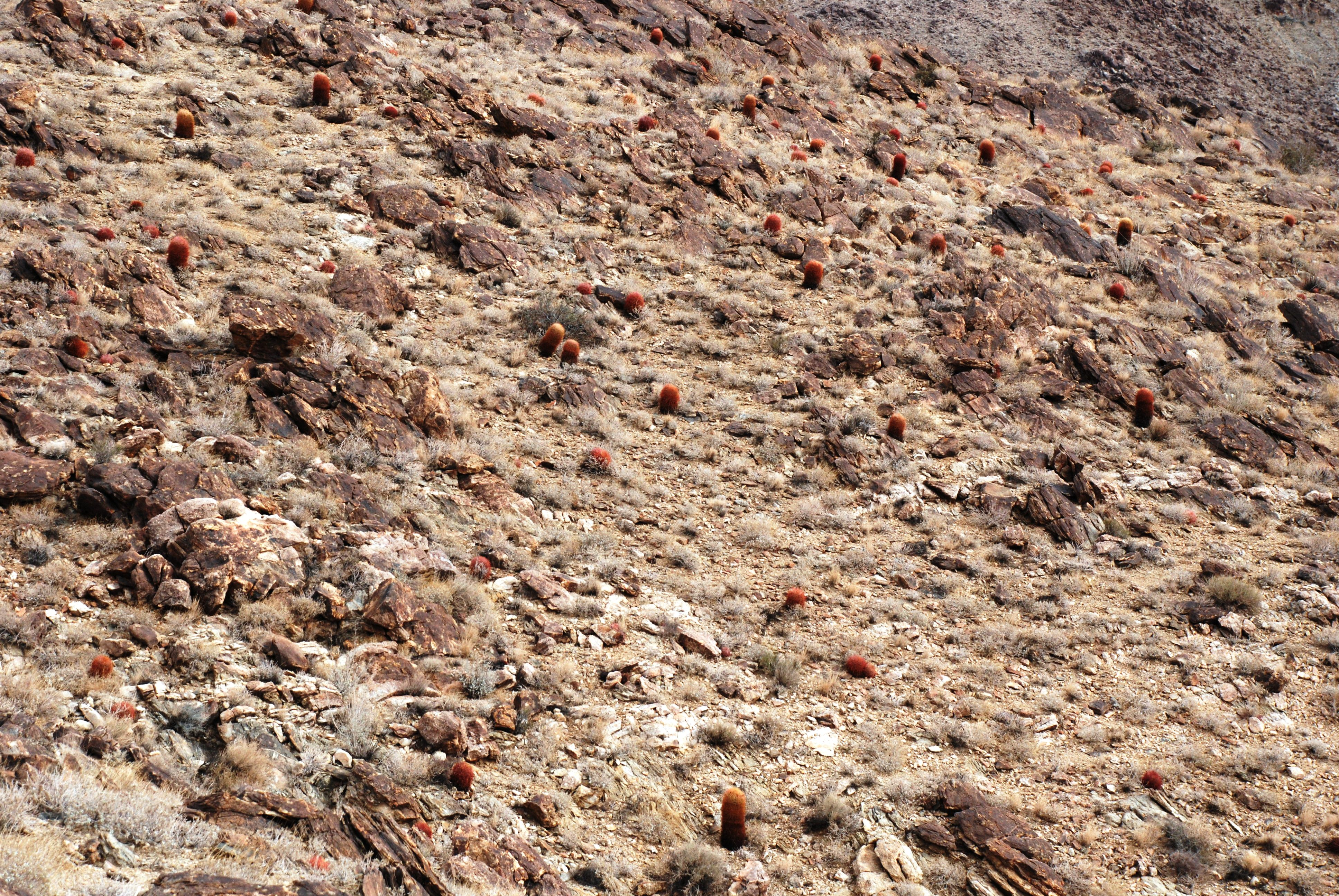 Hill side with about 50 Barrel Cactuses (Ferocactus cylindraceus) on the trail to 49 Palms Oasis in Joshua Tree National Park